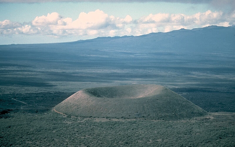 This cinder cone (Pu`u ka Pele) was erupted low on the southeast flank of Mauna Kea Volcano. The cone is 95 metres (312 ft) in height, and the diameter of the crater at the top is 400 metres (1,300 ft). Hualalai Volcano in background.